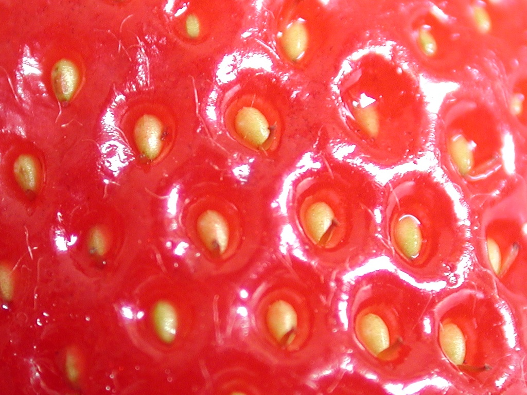 Close-up of a strawberry, showing the pips.